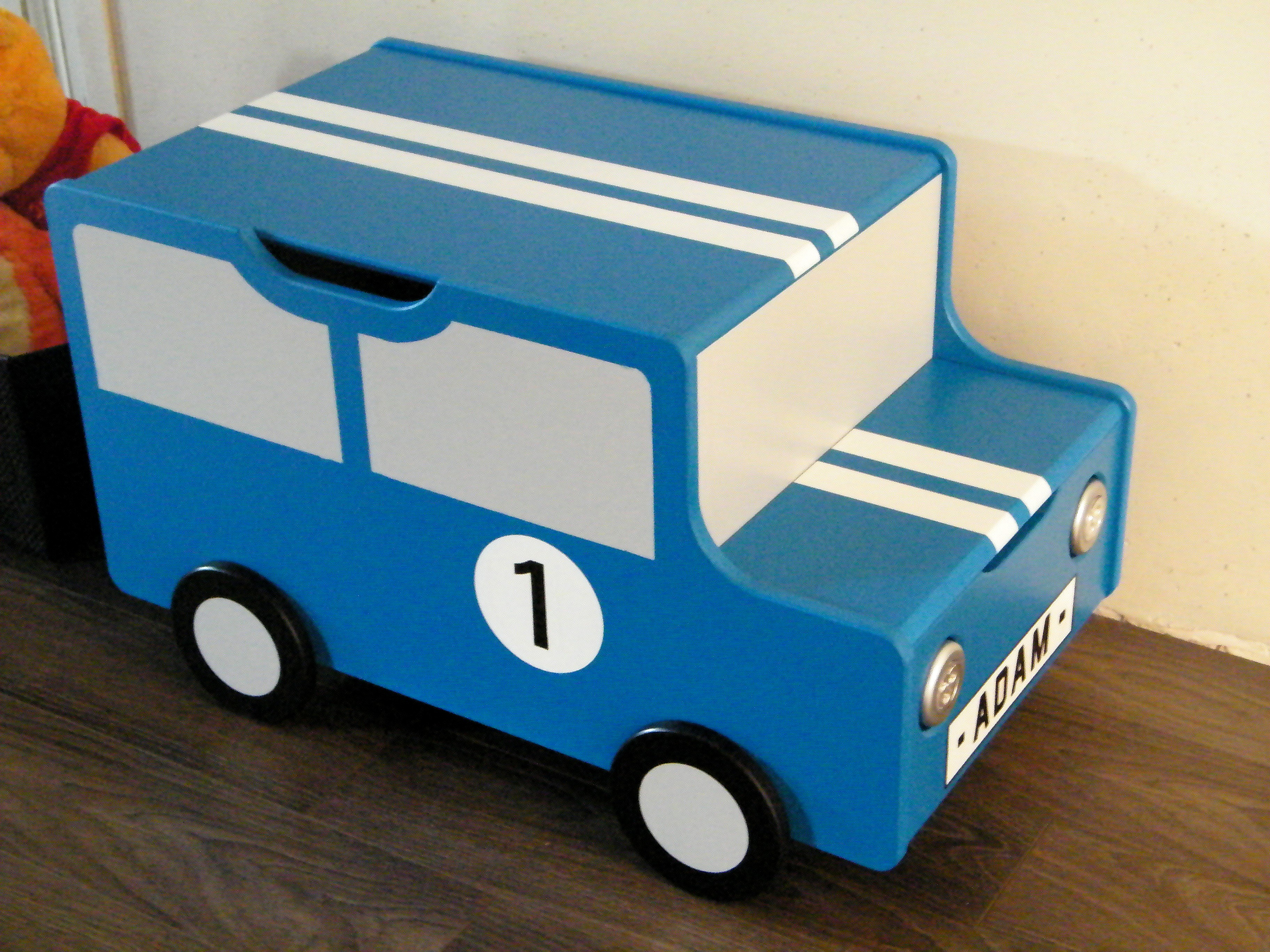 Toy chest